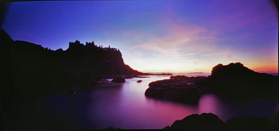 Sunset at Dunluce Castle. Photograph created with a pinhole camera at an exposure time of 20 minutes.